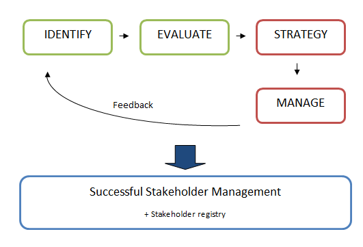 Describes the four-step process of stakeholder management in Project Management